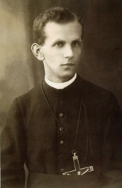 Józef Cebula1 (1902-1941), Polish priest, dead in a concentration camp, beatified